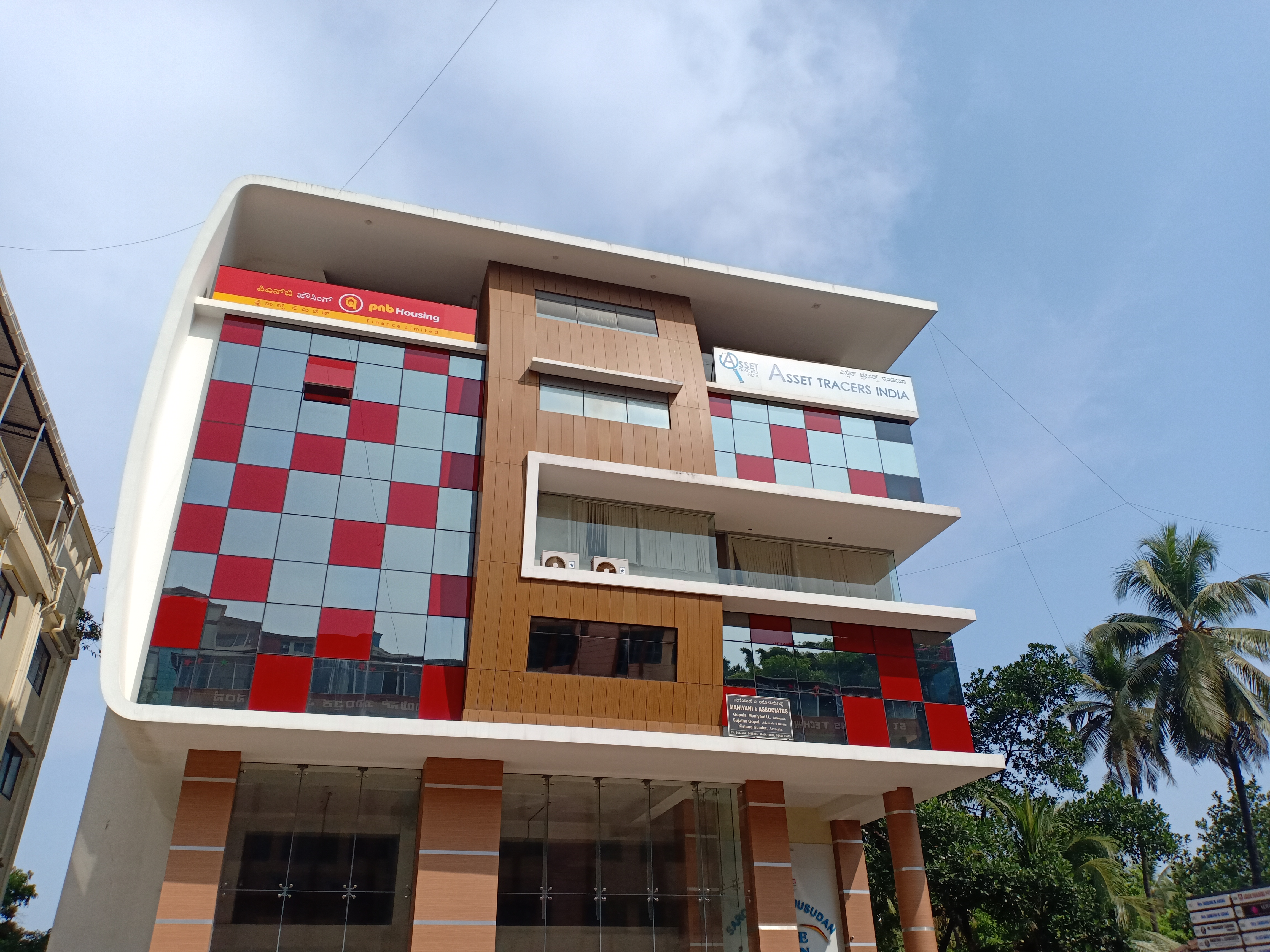 Sarojini Madhusudan Kushe Sadan building at Karangalpady in Mangalore